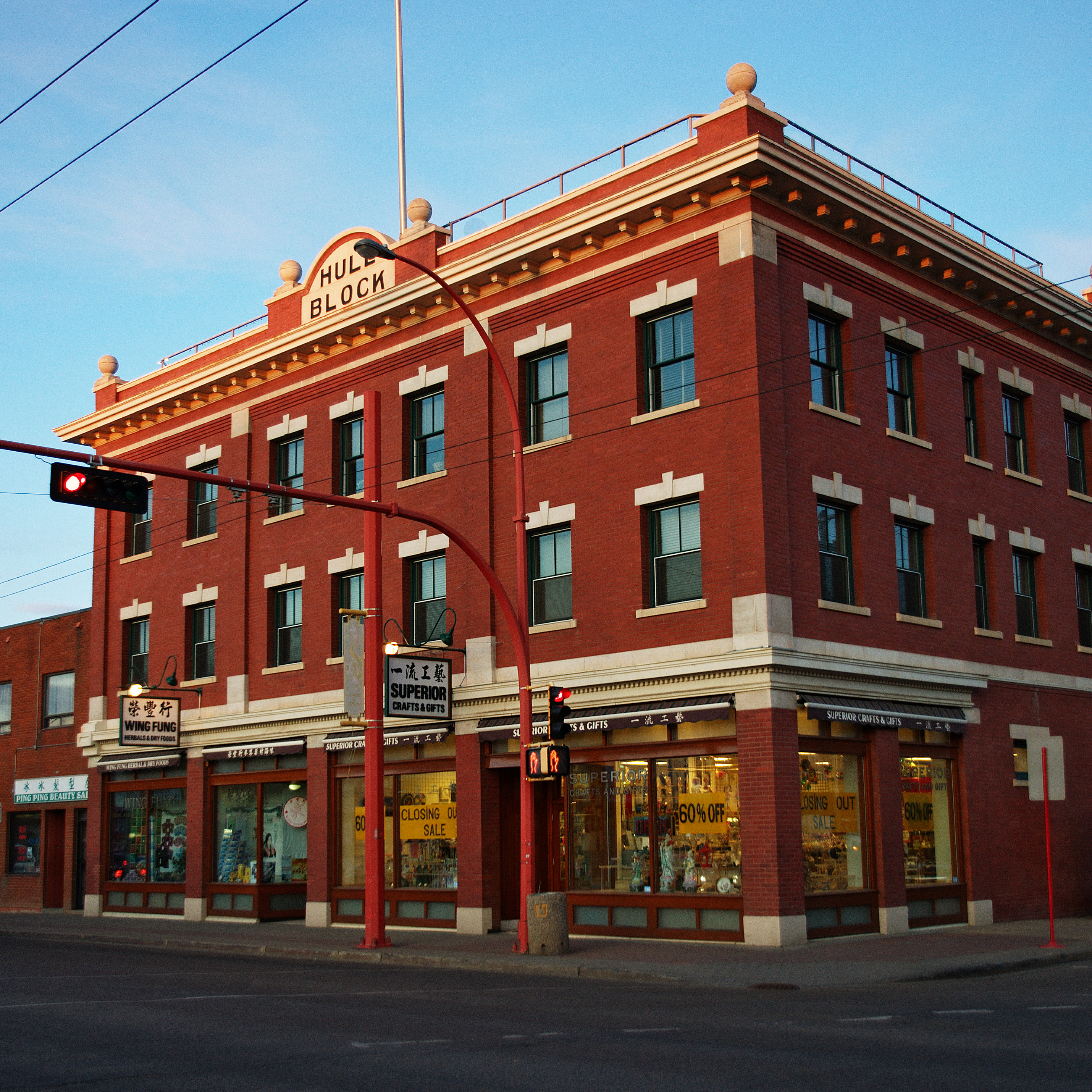 Hull Block located at 97 Street and 106 Avenue in Edmonton Alberta's chinatown, was constructed in 1914 by William Roper Hull.